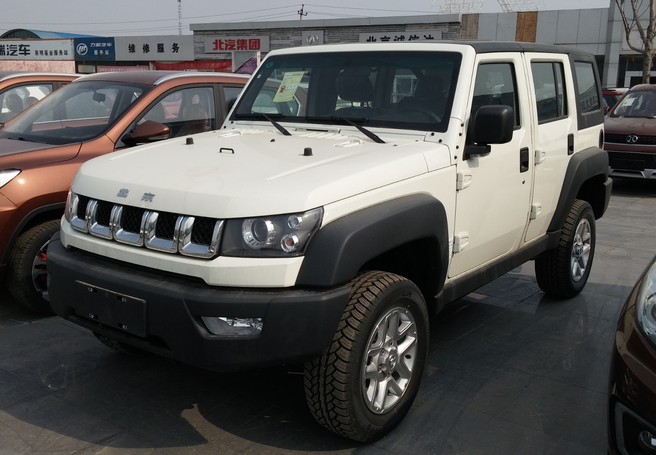 Beijing BJ40L photographed in Beijing, China.